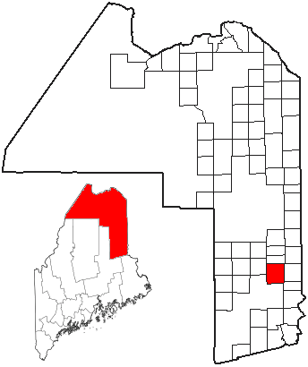 Adapted from U.S. Census Bureau maps (American FactFinder) and Wikipedia's ME county maps by Bumm13.